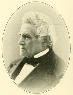 Portrait of New York Chief Judge Addison Gardiner